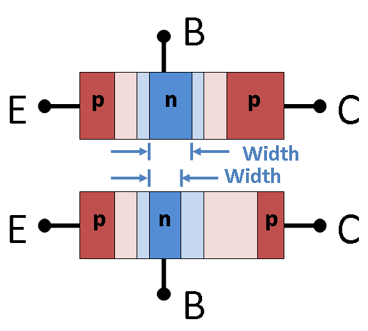 Narrowing of PNP base under collector reverse bias.